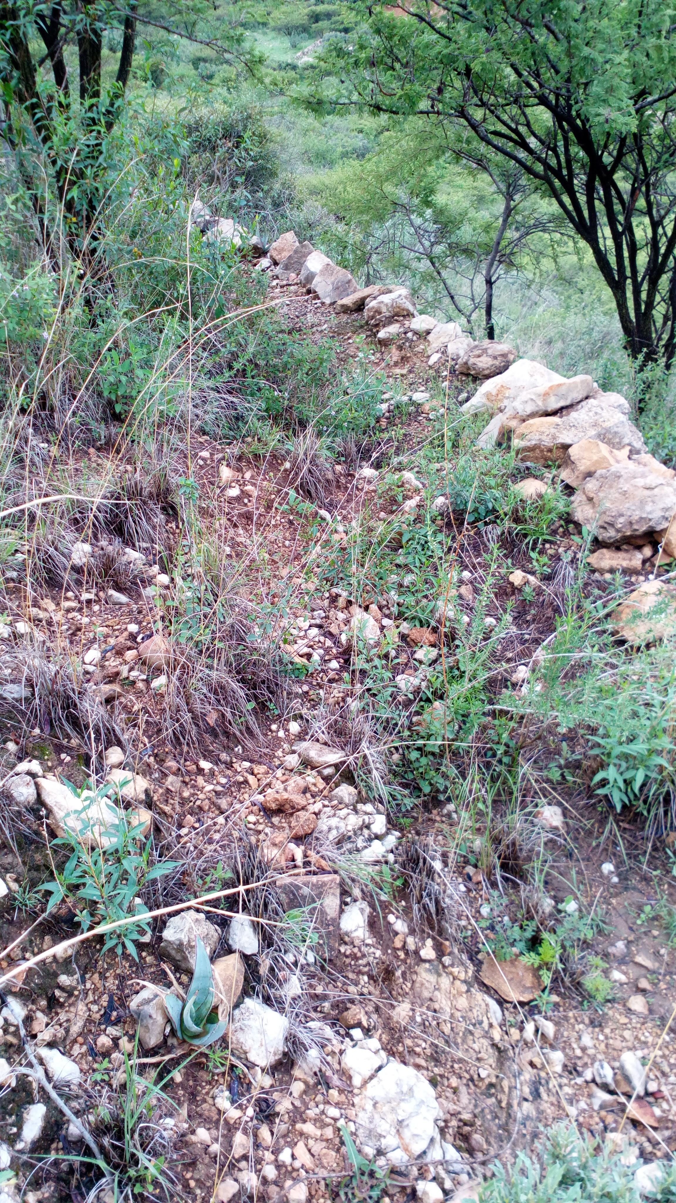 Gemgema 3